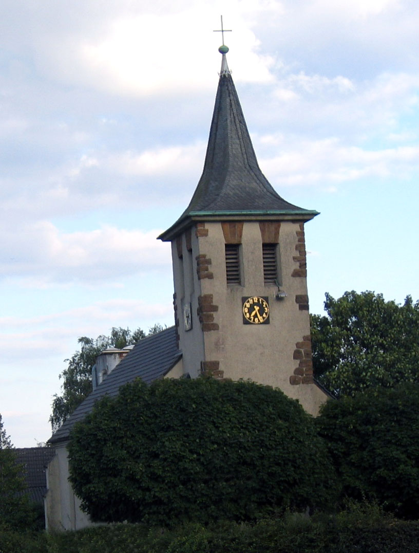 Church of SELK independent christian church in the town of Rödinghausen-Schwenningdorf, Germany.